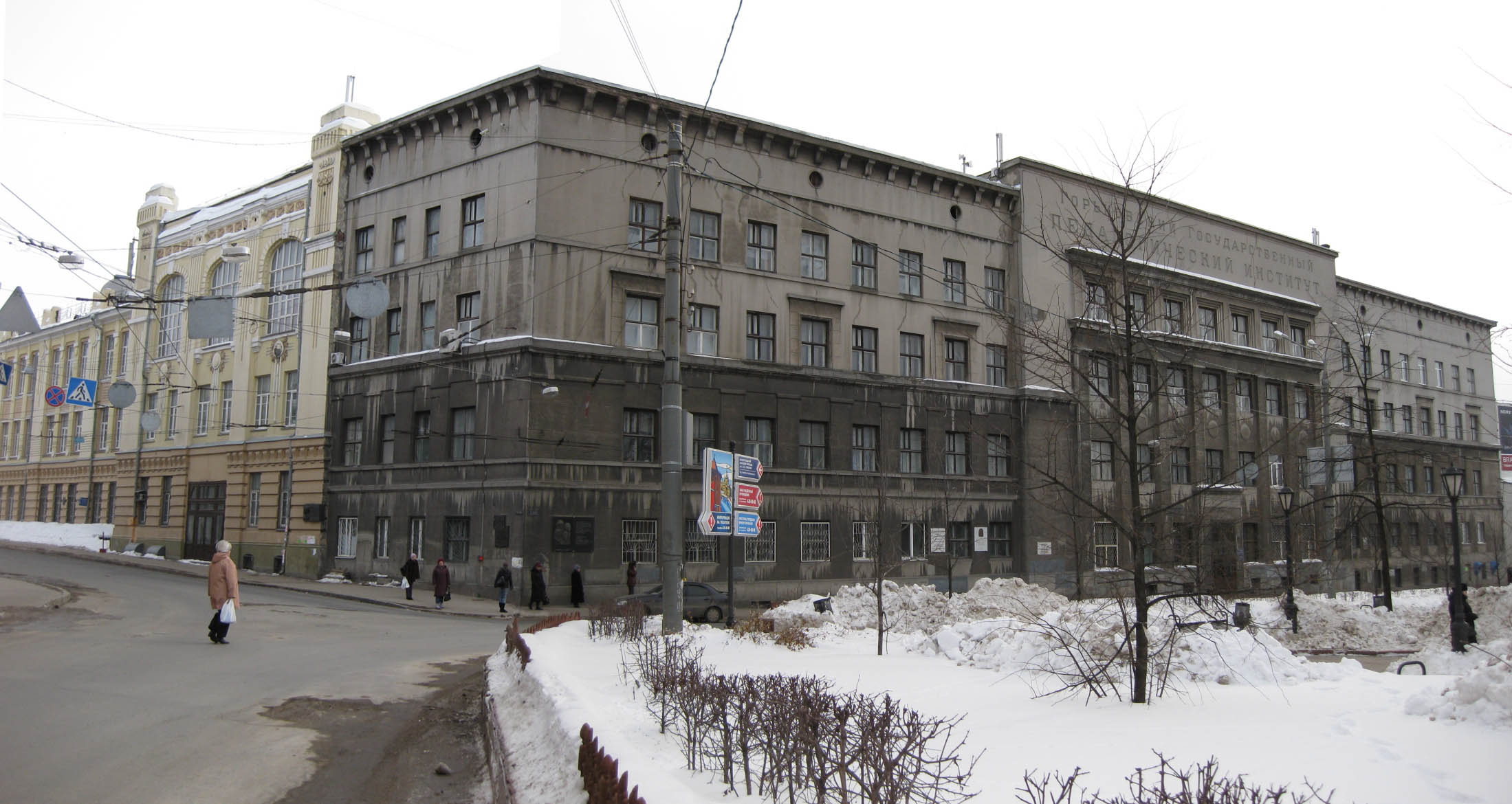 The Nizhny Novgorod State Pedagogical University